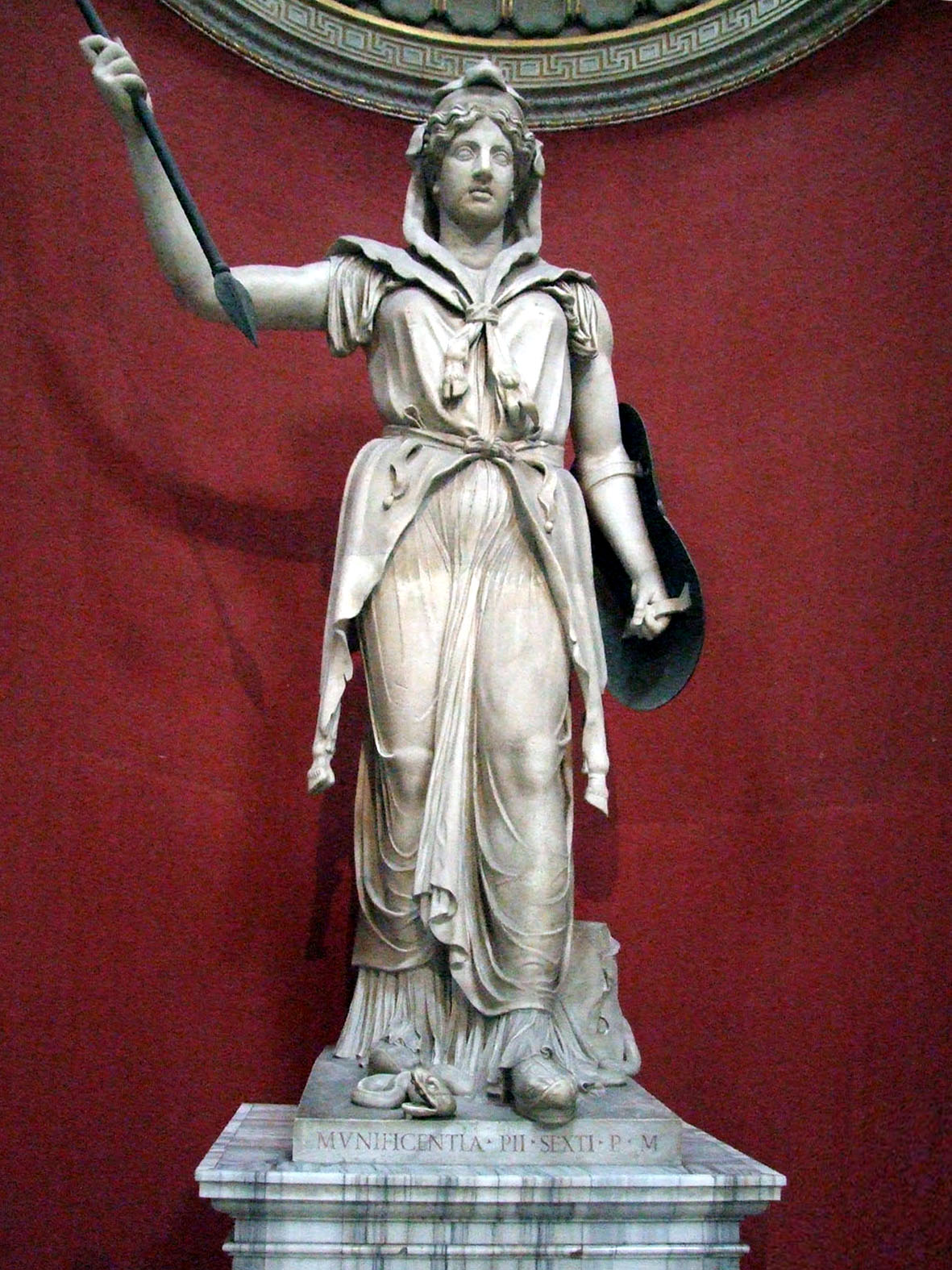 Ancient Roman statue of Juno, Sala Rotonda in the Museo Pio-Clementino (Vatican Museums)